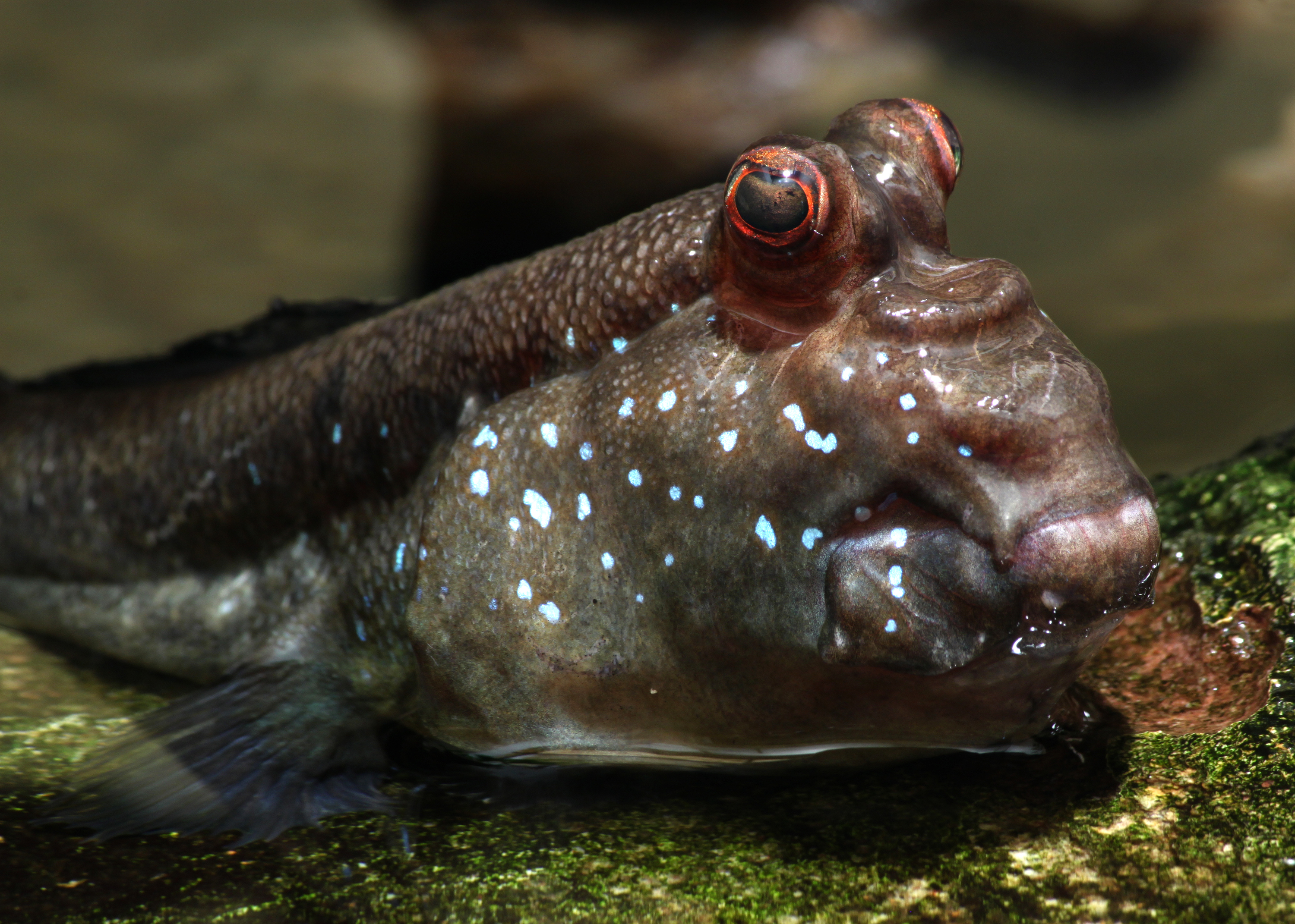 Mudskipper, Periophthalmus barbarus, Family: Gobiidae, Location: Germany, Stuttgart, Zoological Garden.